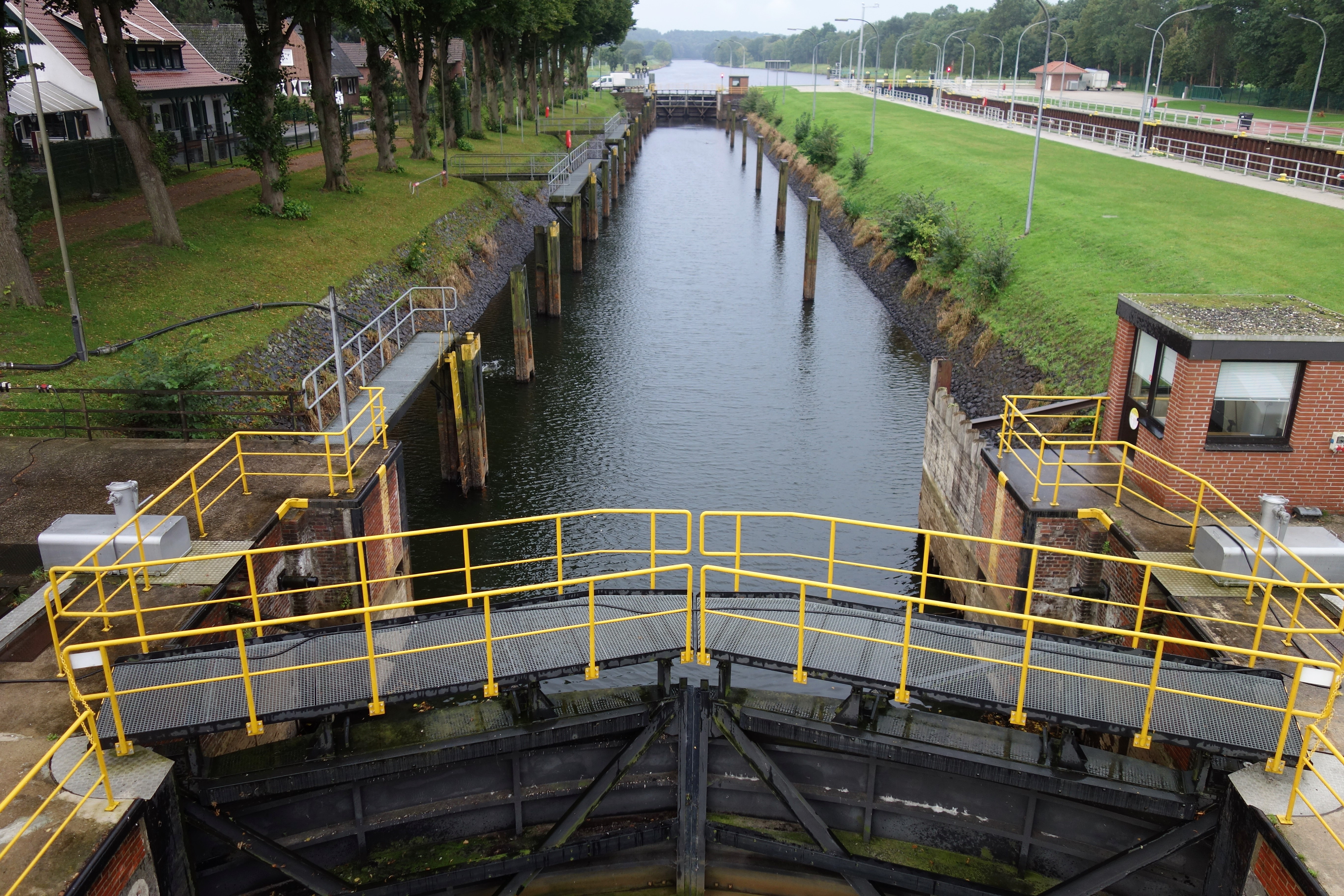 1896 built old chamber of Hilter lock